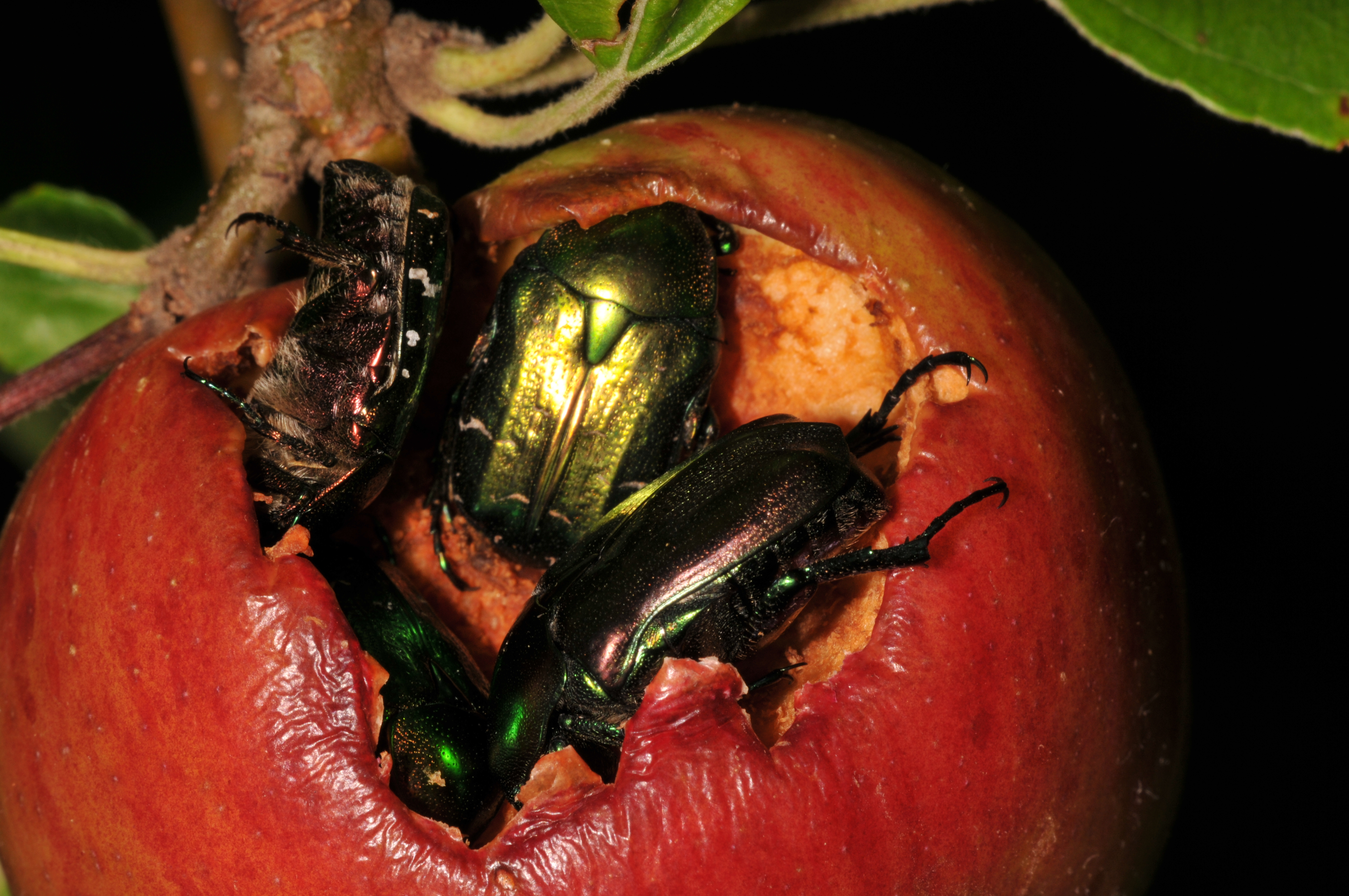 Protaetia angustata (front) und Cetonia aurata (back), Croatia, Istria, Brseč 15 km south Lovran, 45°10`23,80``N 14°13`37,25``E